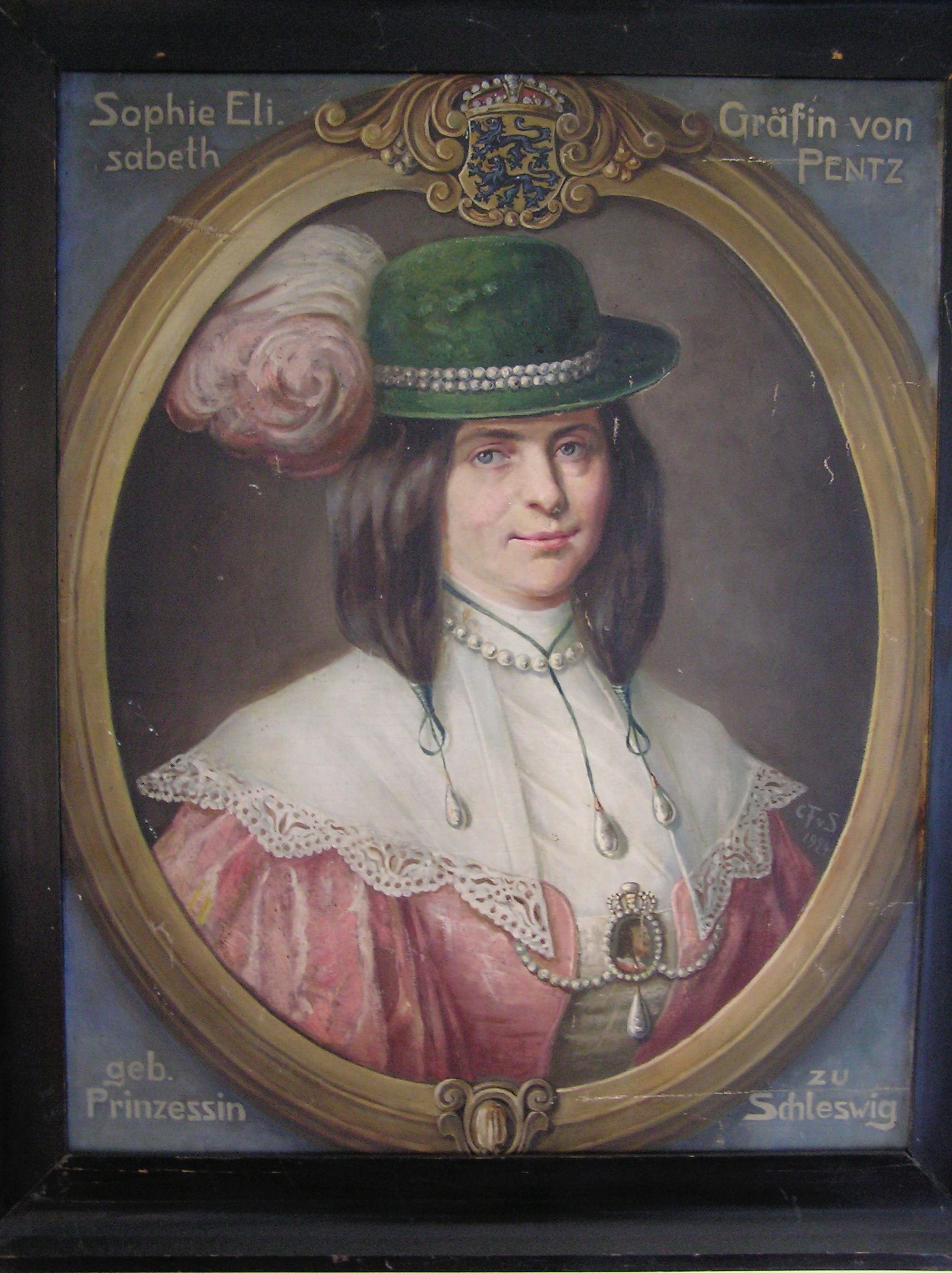 Elisabeth Reichsgräfin v. Pentz